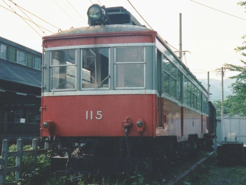 Hakone Tozan Railway Type 3 No.115 at Gora Sta.